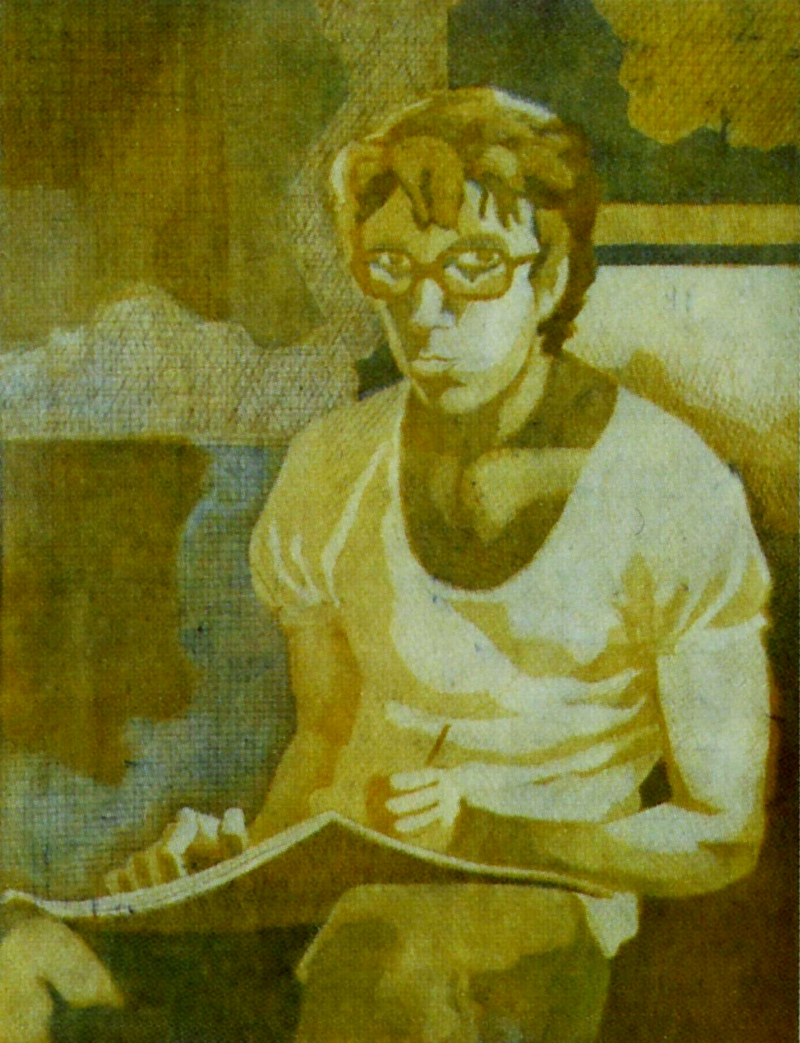 Autoportrét (Self-portrait) - combined technique (34,5x26) - 1975 Srpski (latinica): Autoportrét (Autoportret) - kombinovana tehnika (34,5x26) - 1975